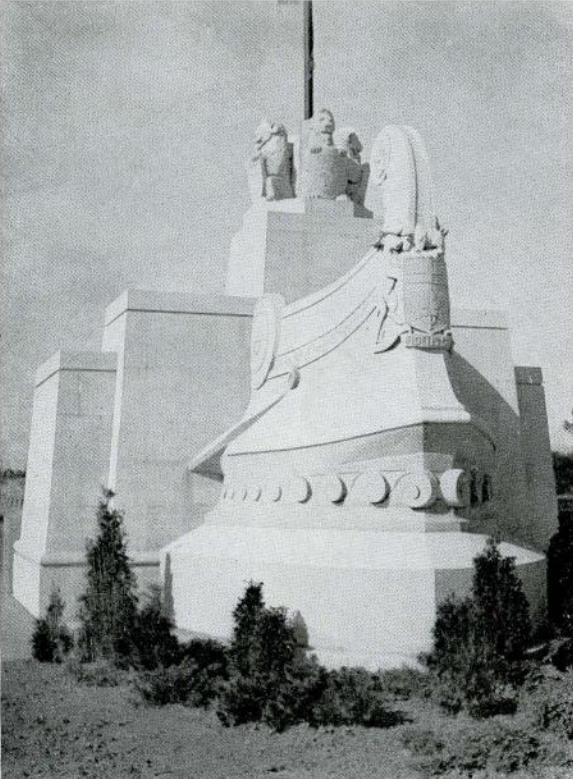 View of Henley Bridge Decorative Abutment, April 1941. Designed by W. L. Somerville and Frances Loring